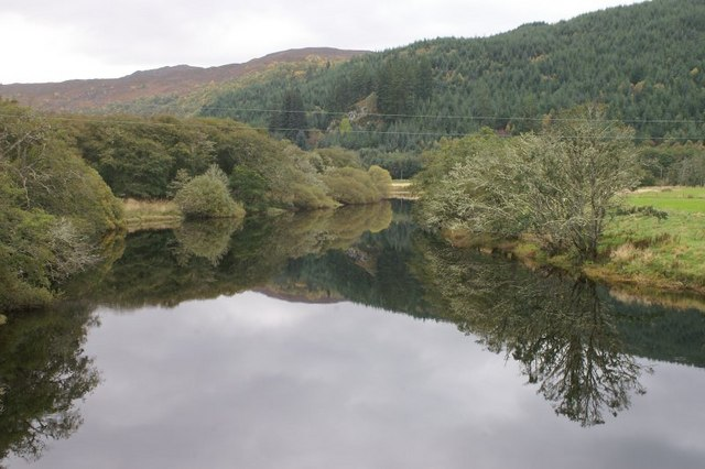 River Glass at Struy Living up to its name on a very calm day; a few hundred metres further on the Glass joins with the Farrar to form the Beauly.